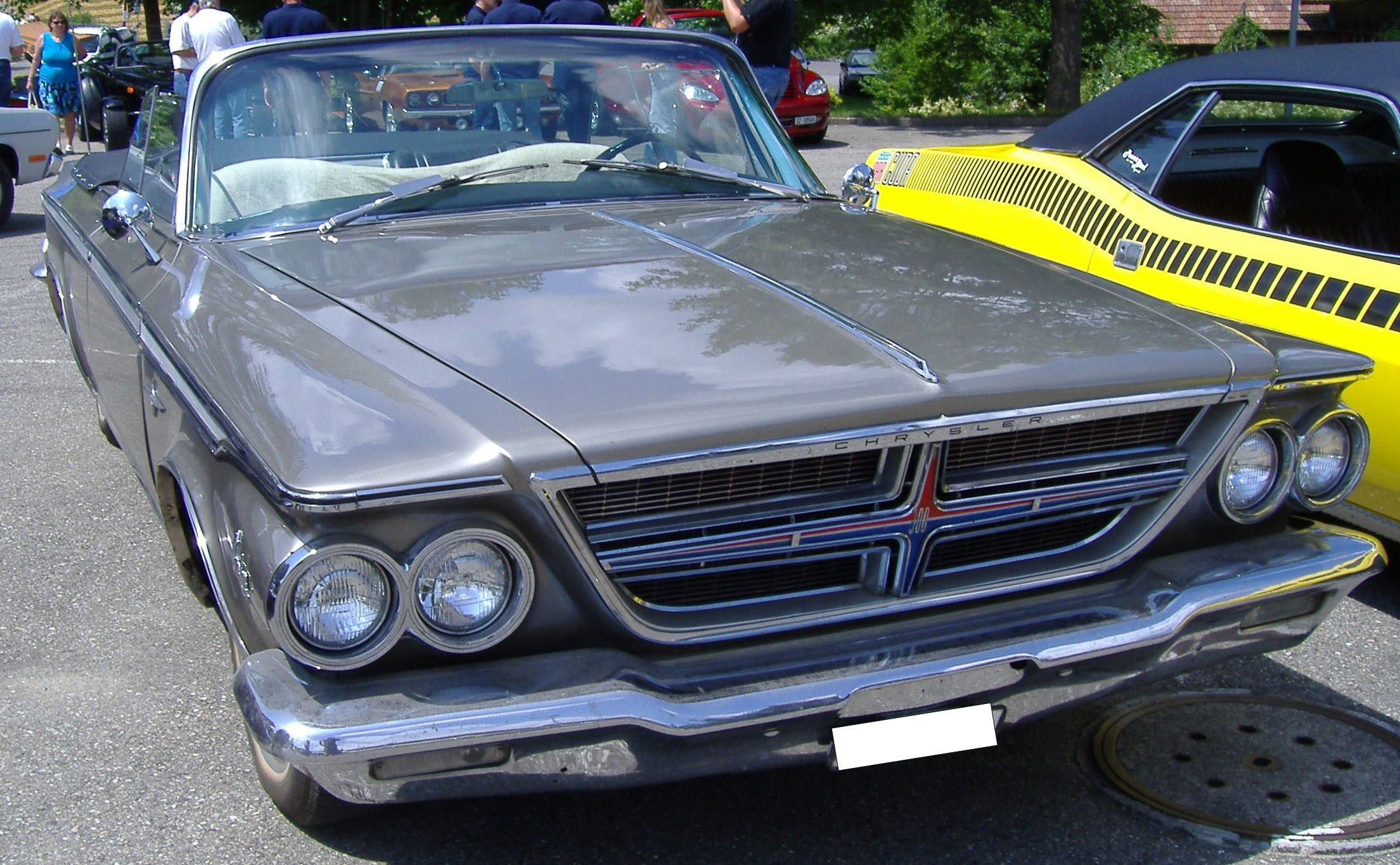 1964 Chrysler 300 (wrong file name)